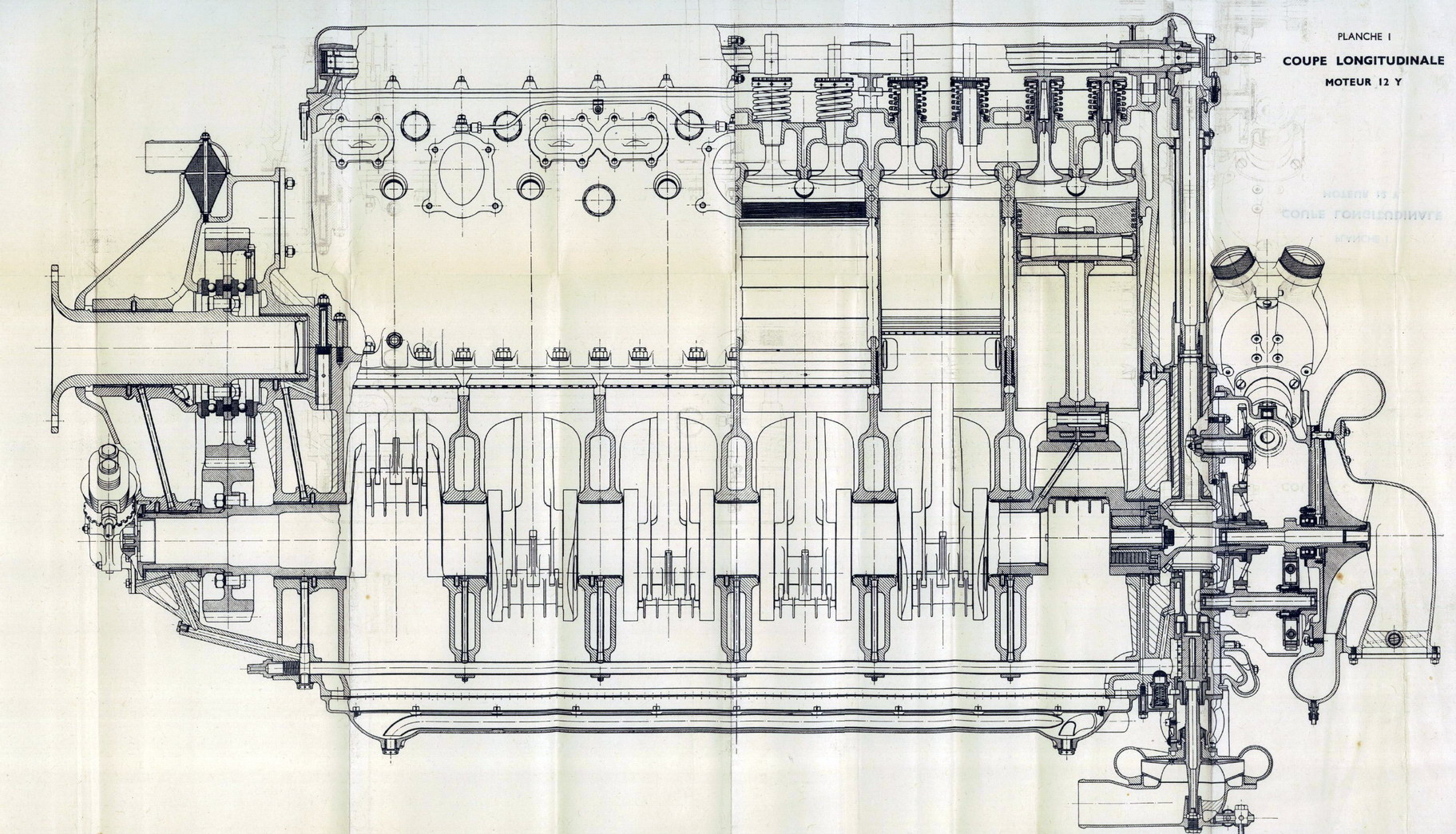 Hispano-Suiza 12Y cutaway - from constructor's manual, 1935